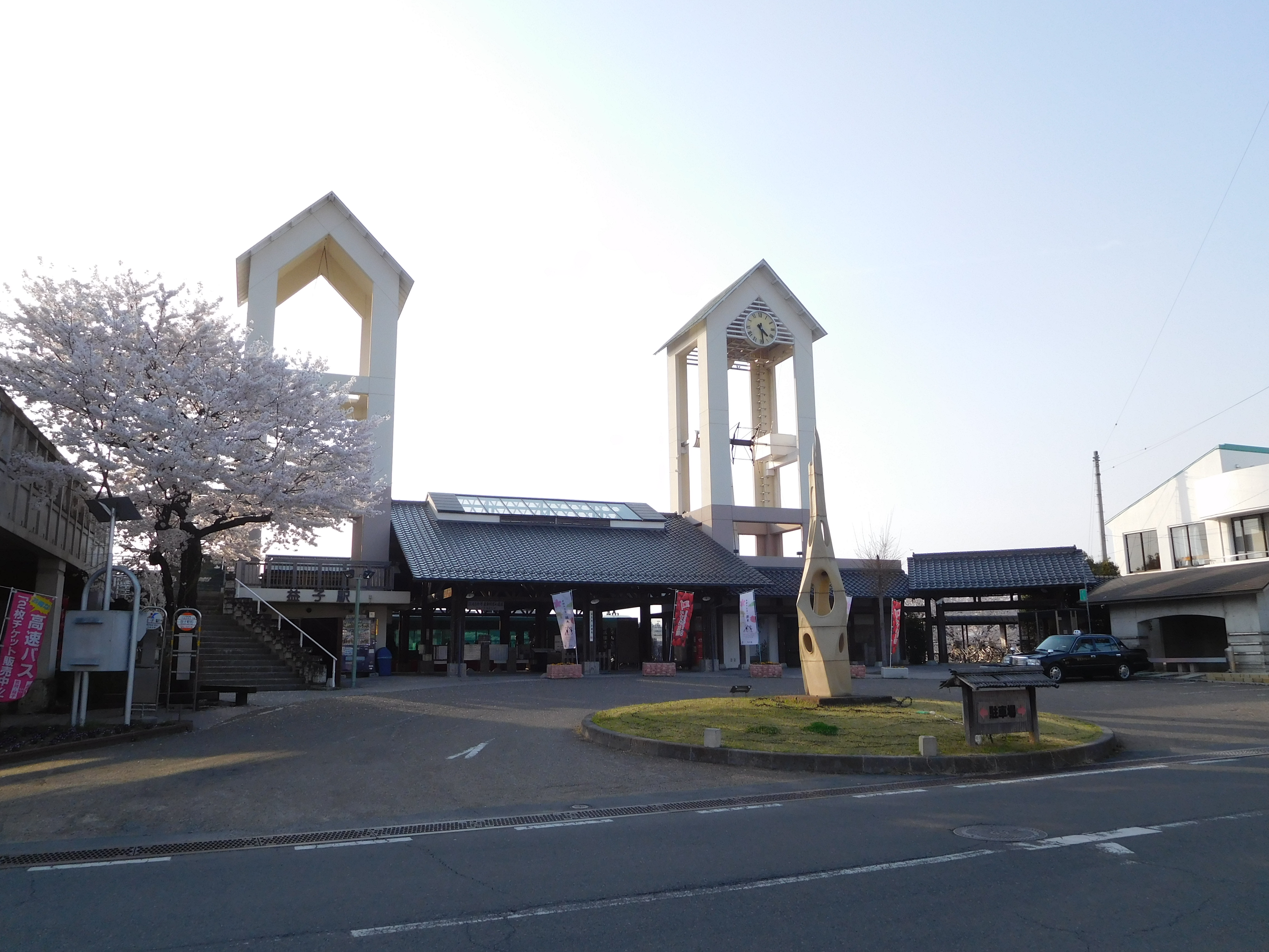 This is Moka Railway Mashiko station in Mashiko, Tochigi, Japan.